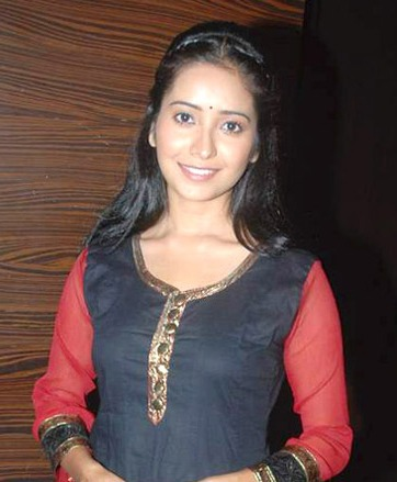 Asha Negi at the Post-leap launch of Pavitra Rishta